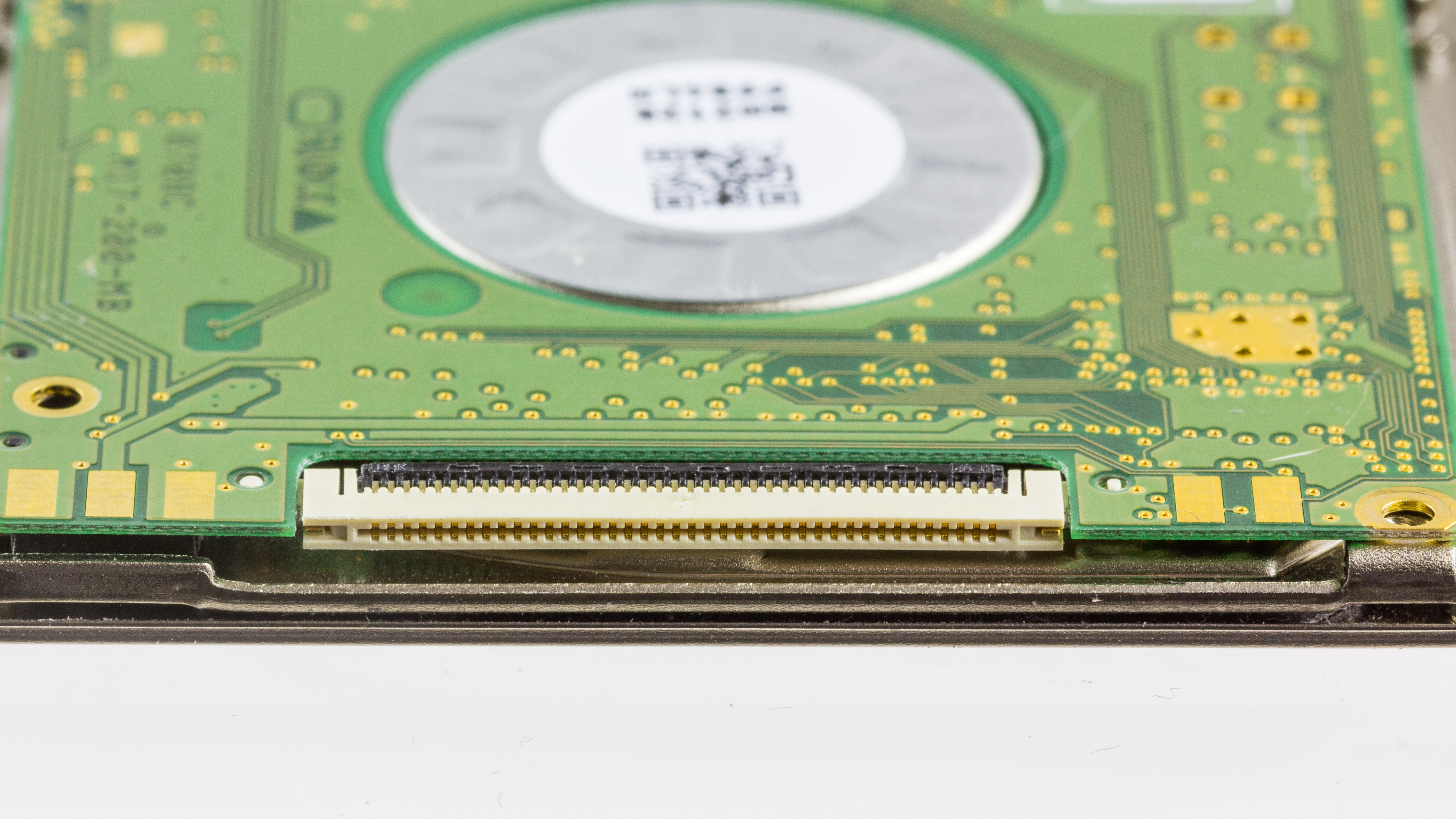 Samsung HS081HA - 80 pin parallel ATA interface